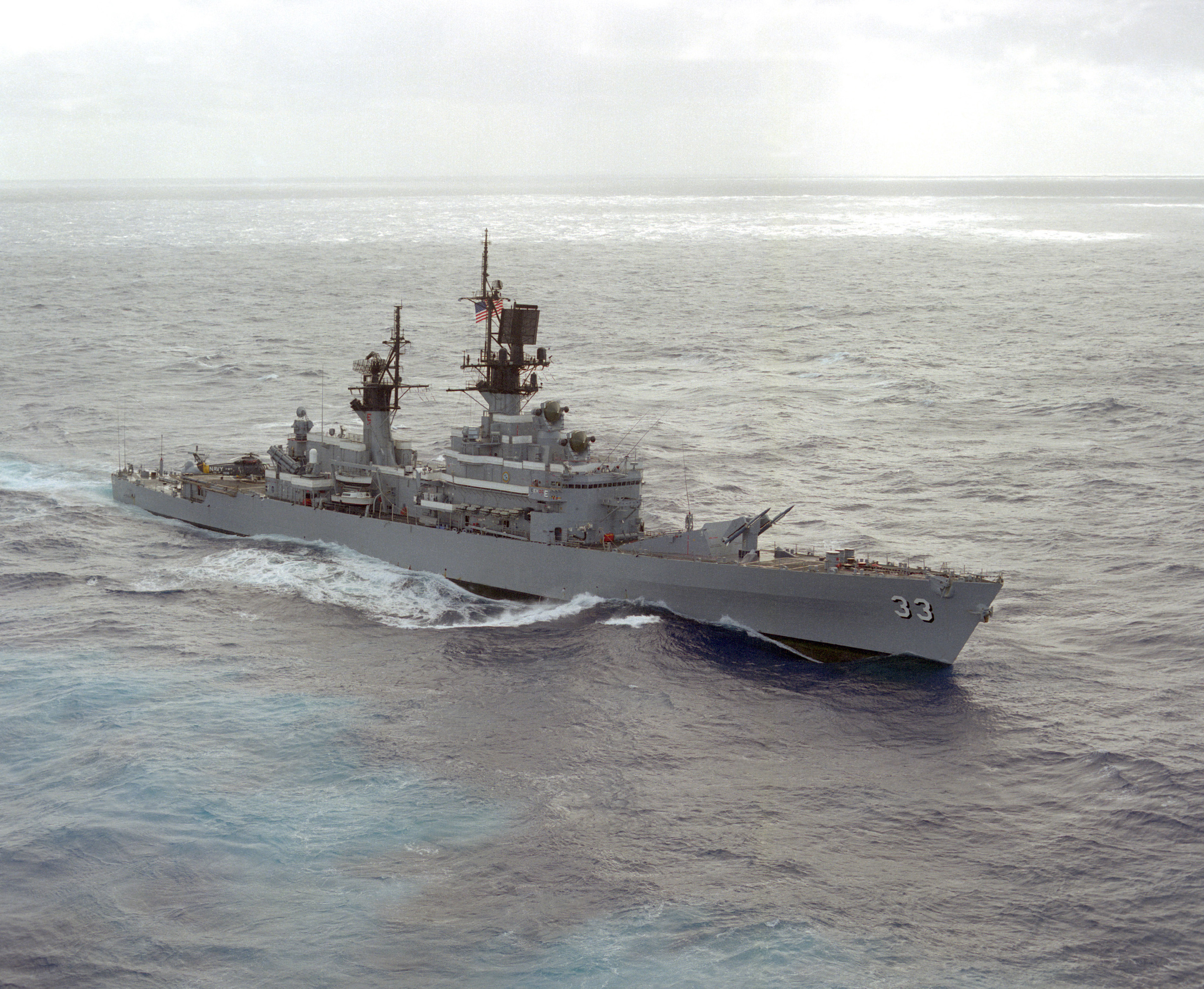 The U.S. Navy guided missile cruiser USS Fox (CG-33) underway in the Pacific Ocean on 16 December 1988.